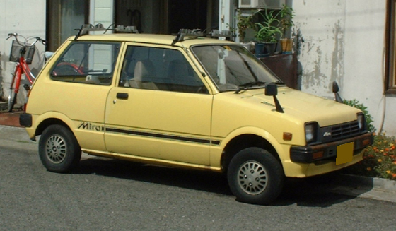 Daihatsu Mira (first generation) L55V